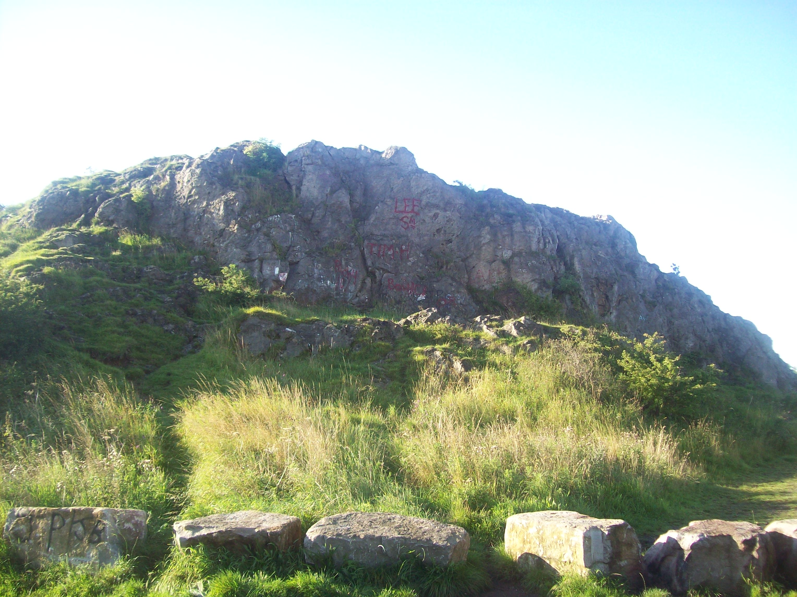 Rocky Hill, part of Tunstall Hills